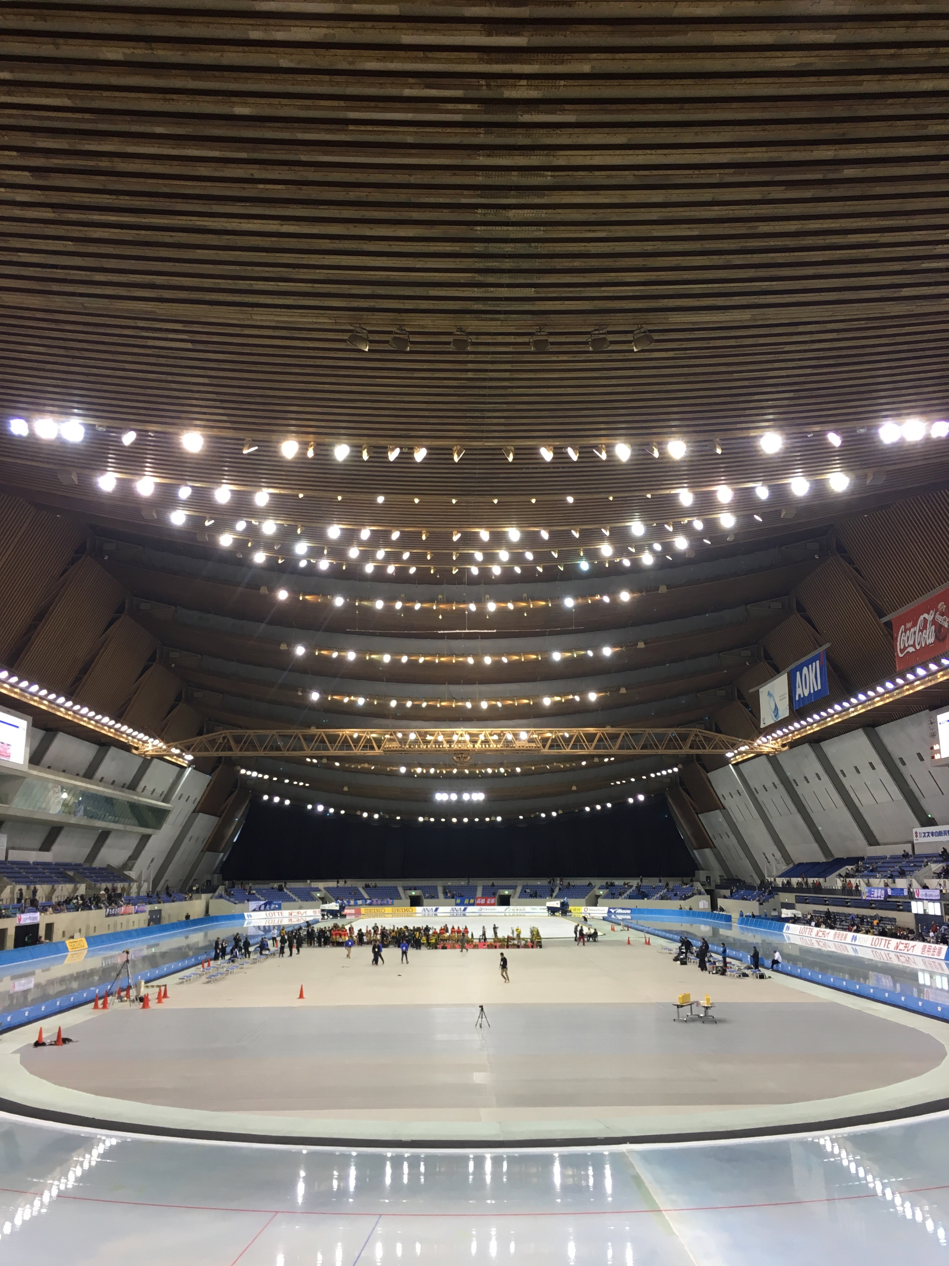 This is the interior, looking east, of the M-Wave Olympics Speed Skating Oval, in Nagano.